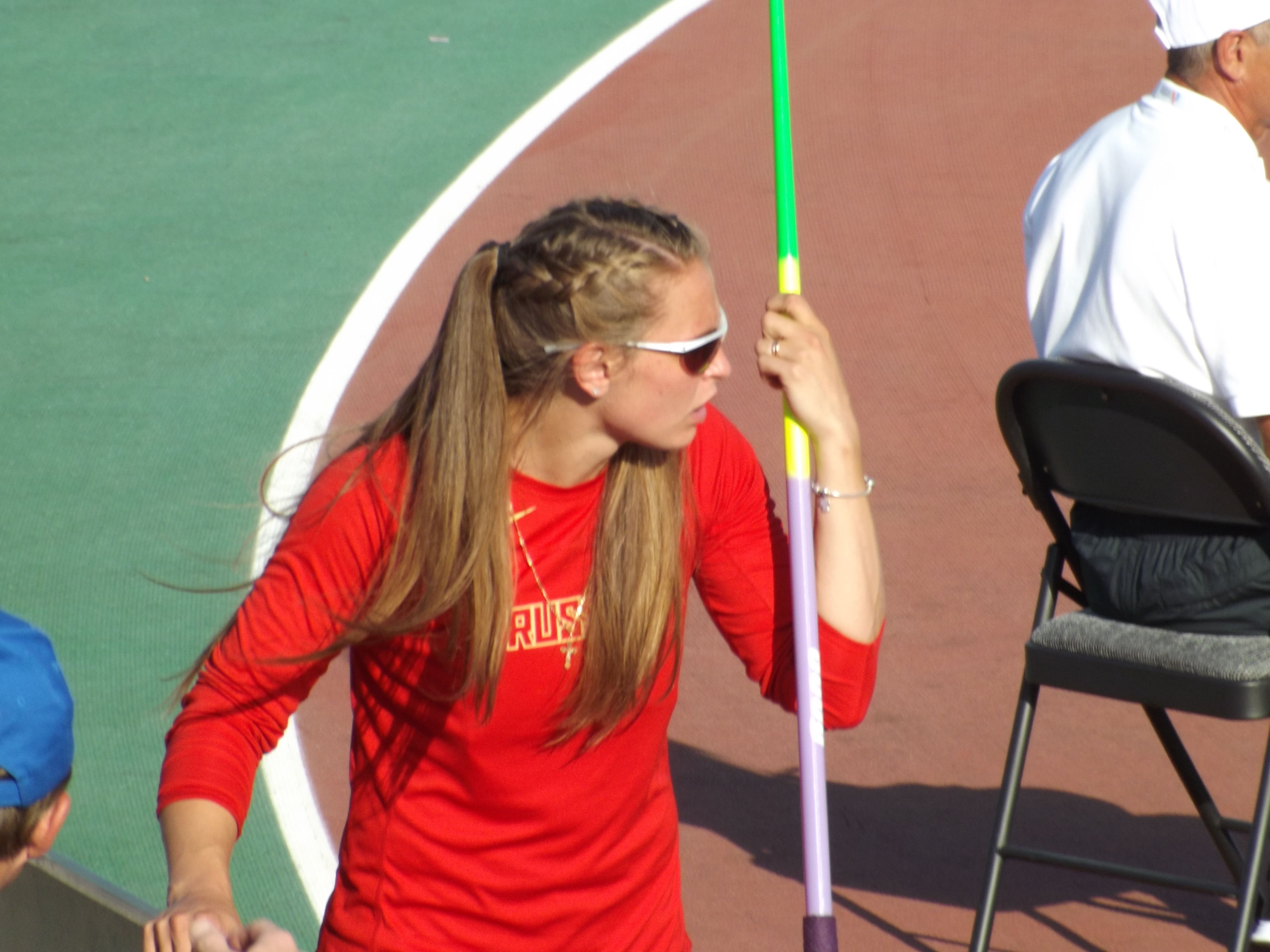 Russian javelin thrower Viktoriya Sudarushkina during 2015 European Team Champioships